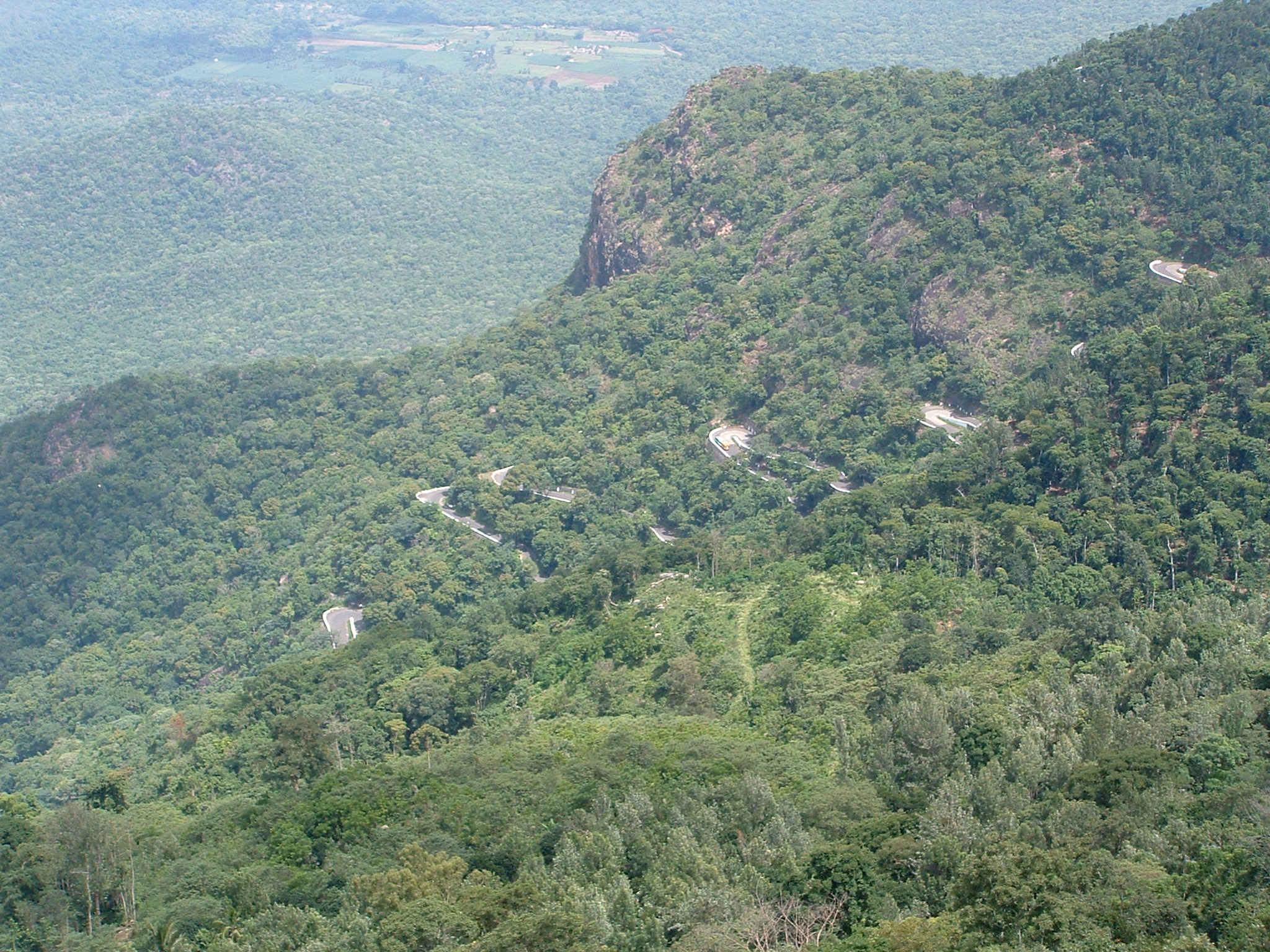 A view of the meandering hill roads of Yercaud from Lady's Seat.